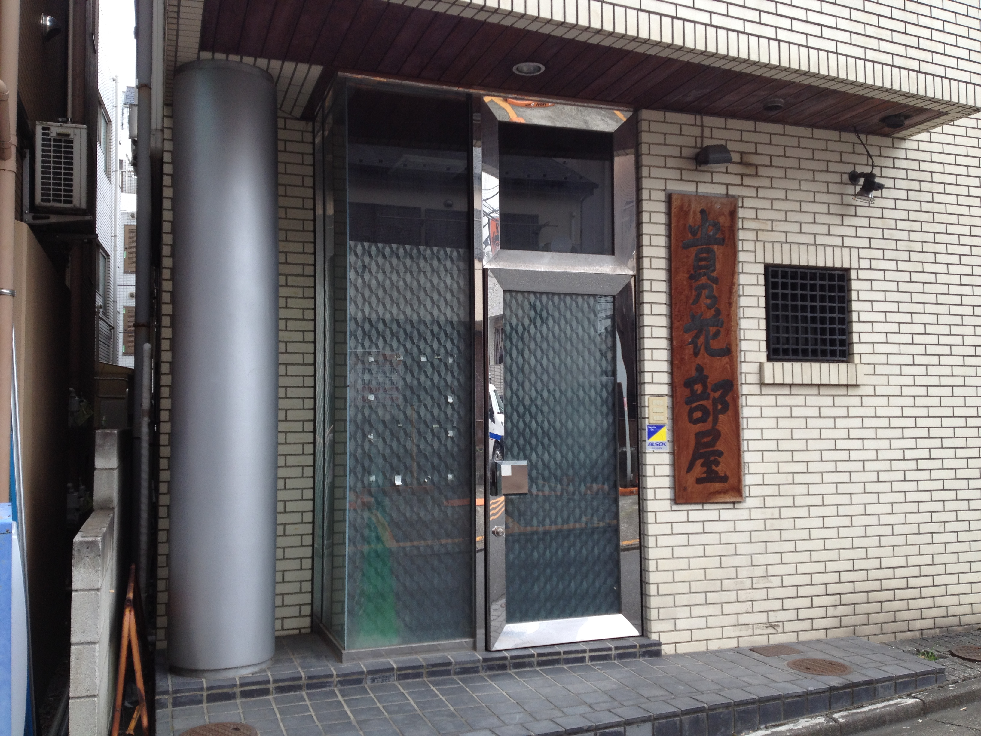 Front door of the sumo stable